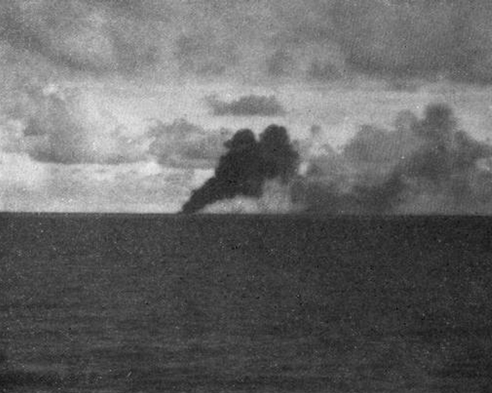 The Japanese light carrier Chiyoda sinks during the Battle off Cape Engaño, 25 October 1944. The U.S. Navy heavy cruisers USS Wichita (CA-45) and USS New Orleans (CA-32), together with the light cruisers USS Santa Fe (CL-60) and USS Mobile (CL-63), sank Chiyoda (around 1700 hrs) and the destroyer Hatsuzuki (2059 hrs).